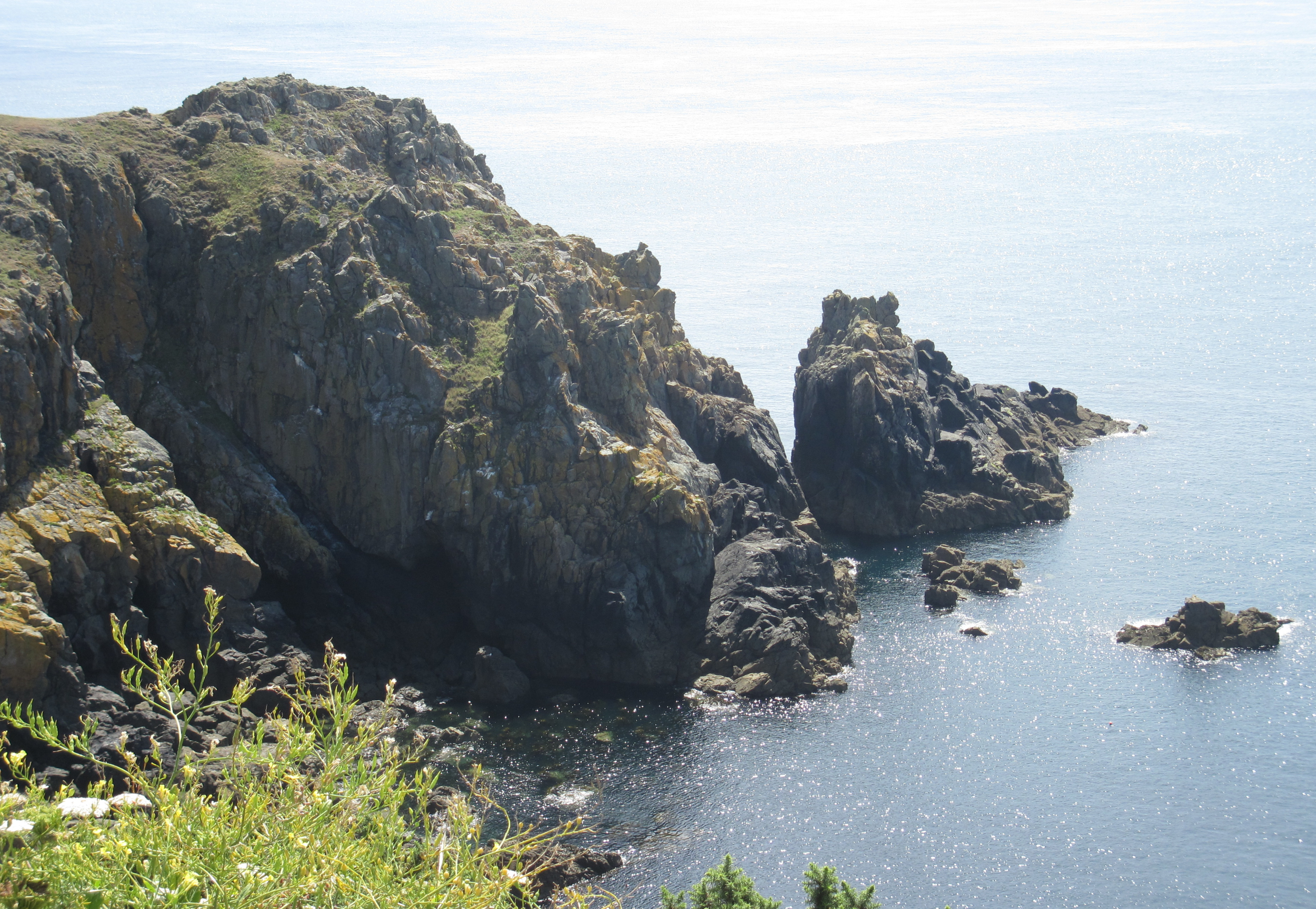 Guernsey, June-July 2011